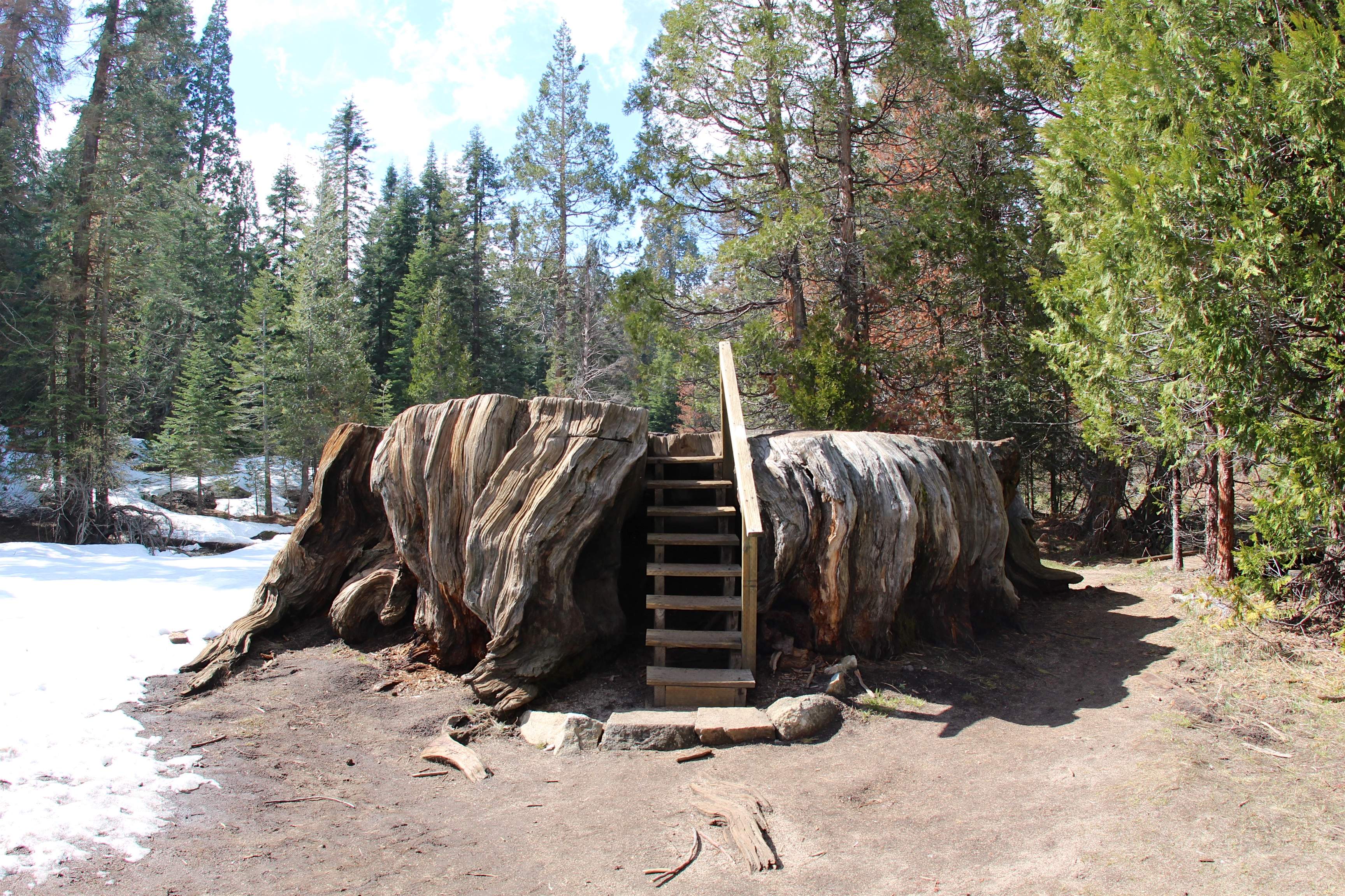 The Mark Twain Stump of Big Stump Grove, Kings Canyon National Park.